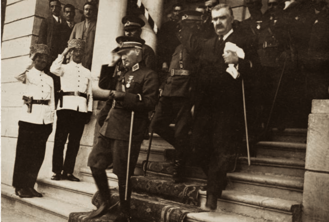 Kemal Atatürk (or alternatively written as Kamâl Atatürk, Mustafa Kemal Pasha until 1934, commonly referred to as Mustafa Kemal Atatürk; 1881 – 10 November 1938) was a Turkish field marshal, revolutionary statesman, author, and the founding father of the Republic of Turkey, serving as its first President from 1923 until his death in 1938. He undertook sweeping progressive reforms, which modernized Turkey into a secular, industrial nation. Ideologically a secularist and nationalist, his policies and theories became known as Kemalism. Due to his military and political accomplishments, Atatürk is regarded as one of the most important political leaders of the 20th century.